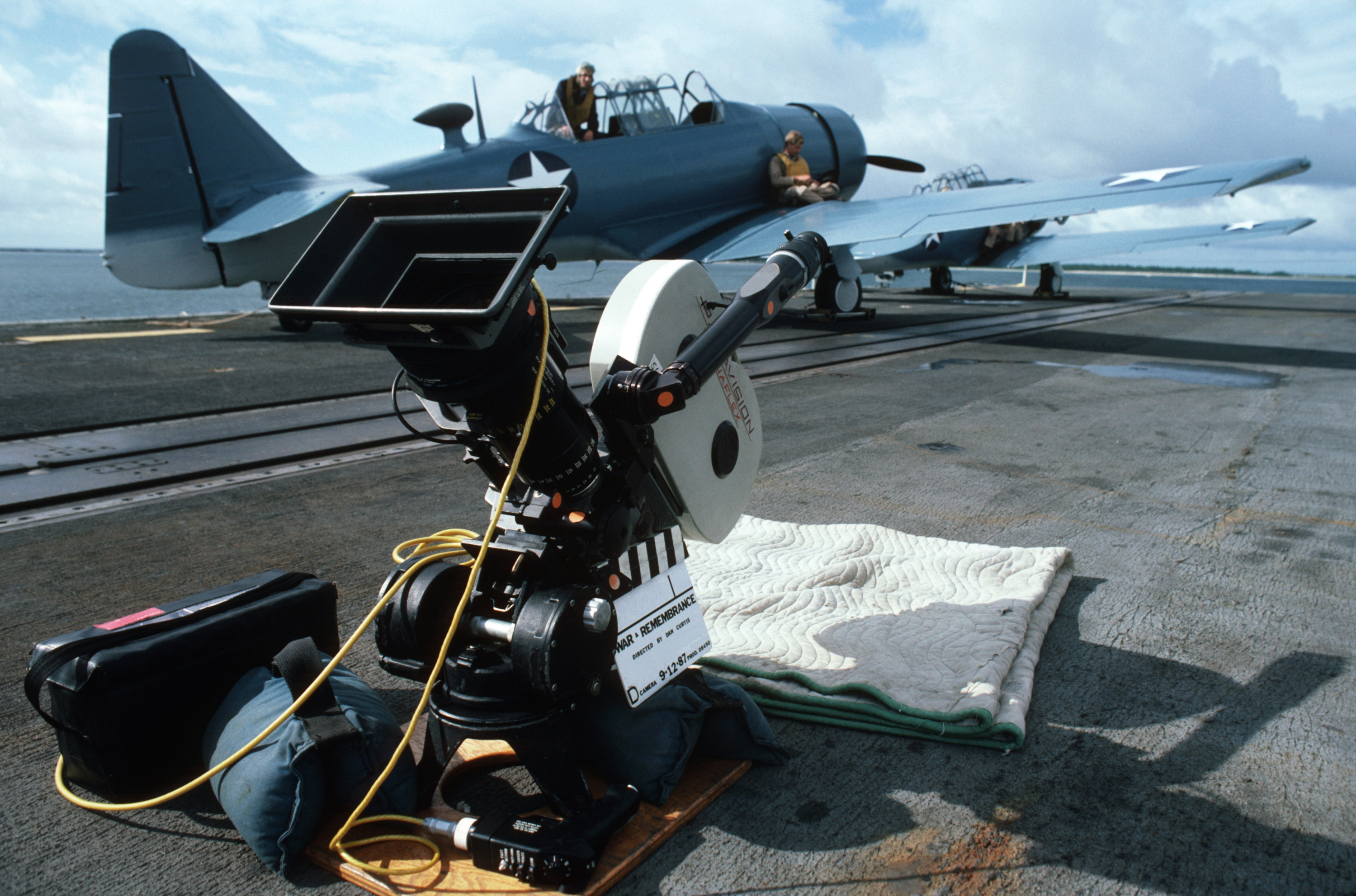 A motion picture camera rests on the flight deck of the U.S. Navy training aircraft carrier USS Lexington (AVT-16) during the filming of the TV miniseries "War and Remembrance", in September 1987. Two North American T-6 Texan aircraft painted in 1942-camouflage are parked in the background.